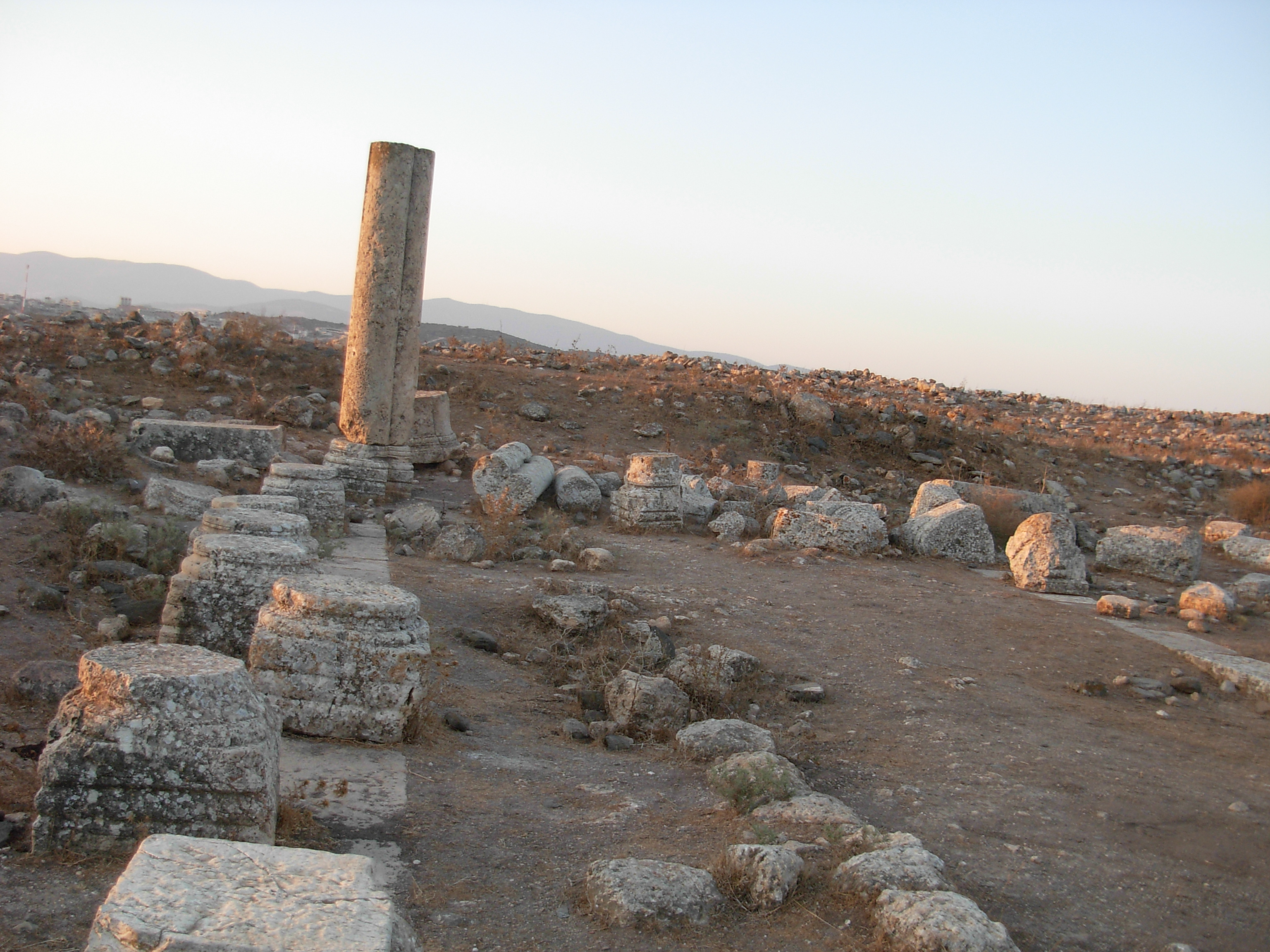 Ancient synagouge "Sdeh Amudim"